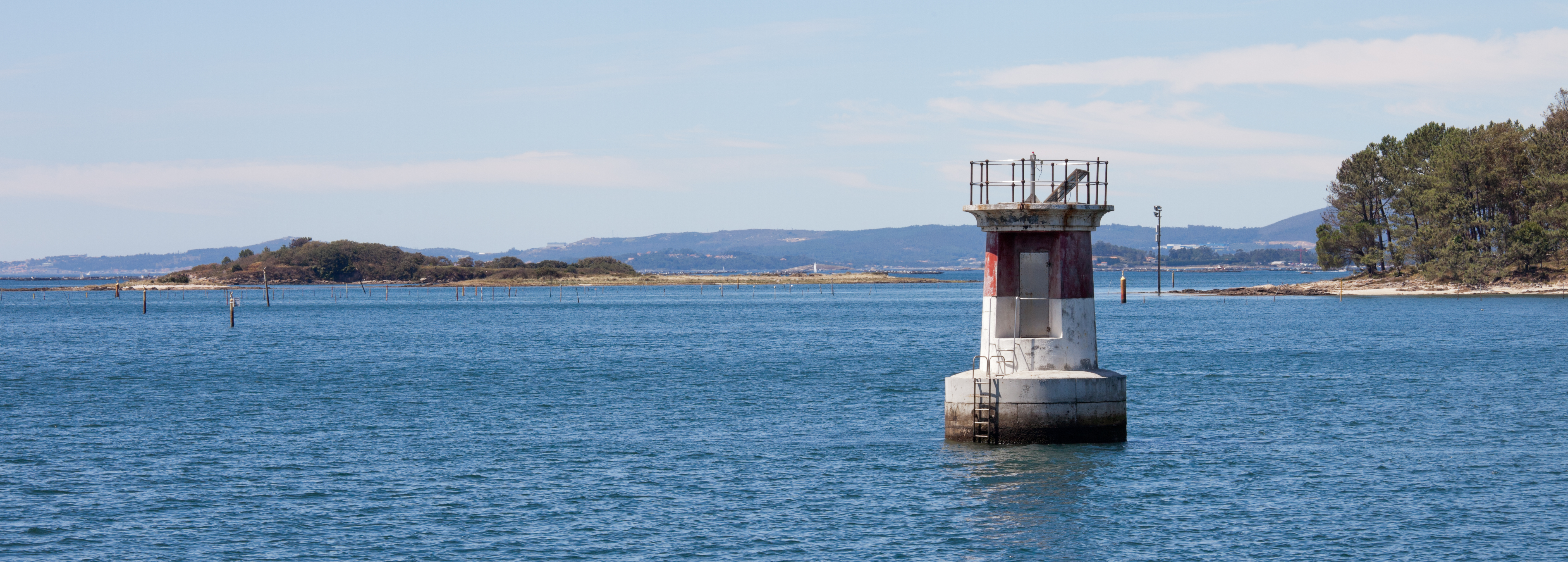 Port of O Carril, Vilagarcía de ArousaGalego: Sinal no porto do Carril, Vilagarcía de Arousa. Ó fondo pódense ver as illas Malveiras e tras o sinal intuírse as illas Briñas.